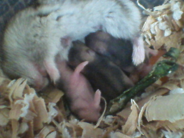 Phodopus sungorus